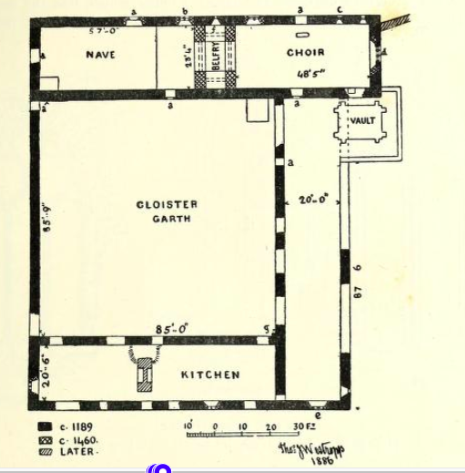 Plan of Clare Abbey, County Clare, Ireland, 1886 by archaeologist, Thomas Johnson Westropp